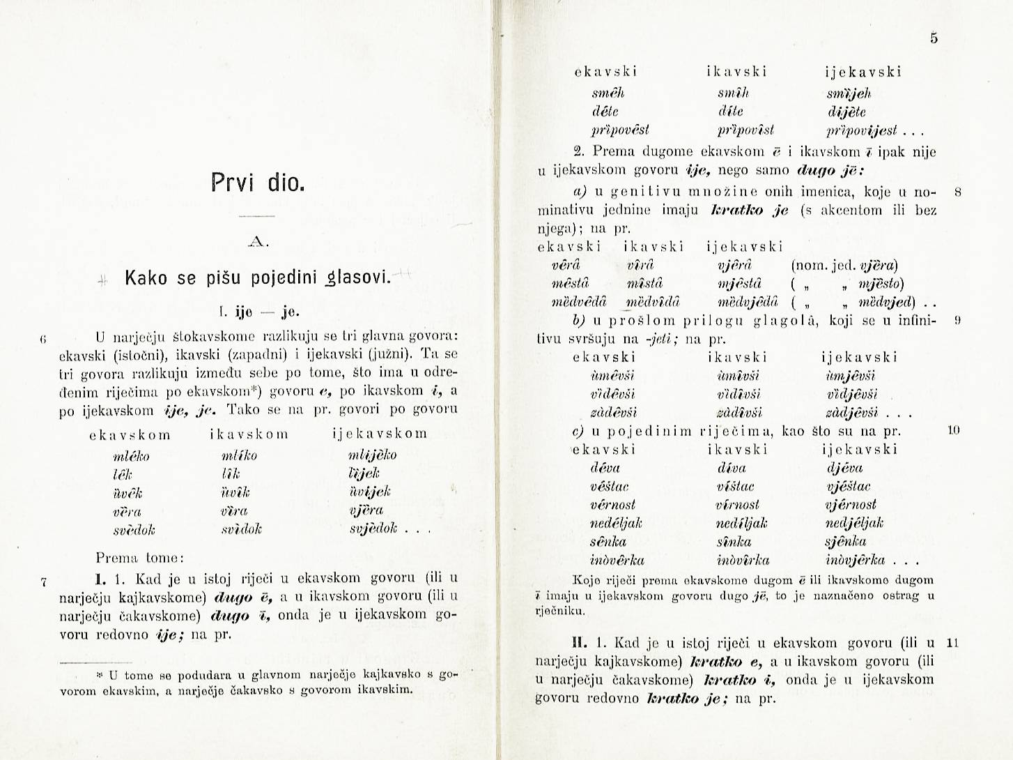 Two pages from a Croatian Ortography book from 1911